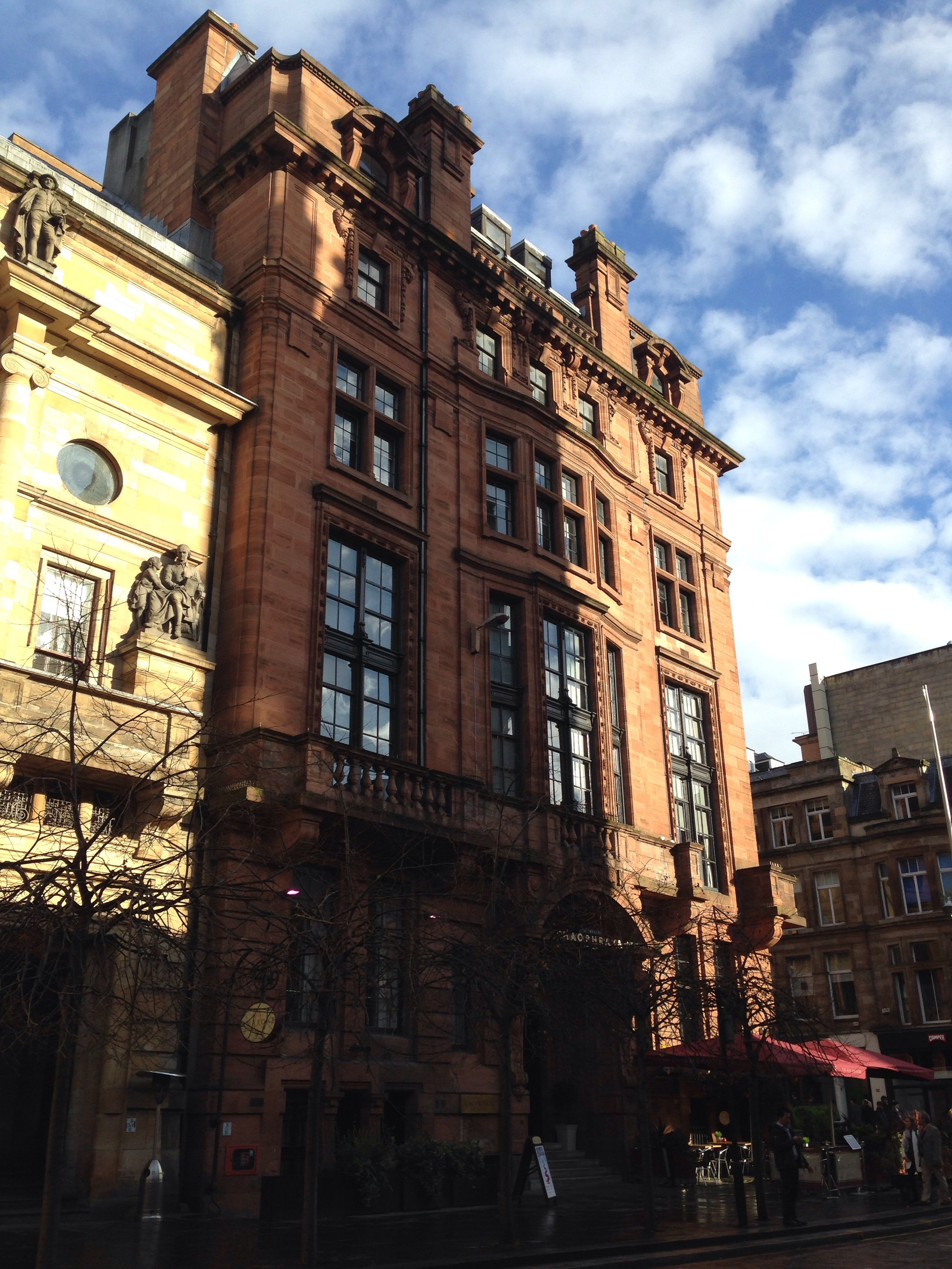 Category A listed 4 Nelson Mandela Place, Glasgow LB33233